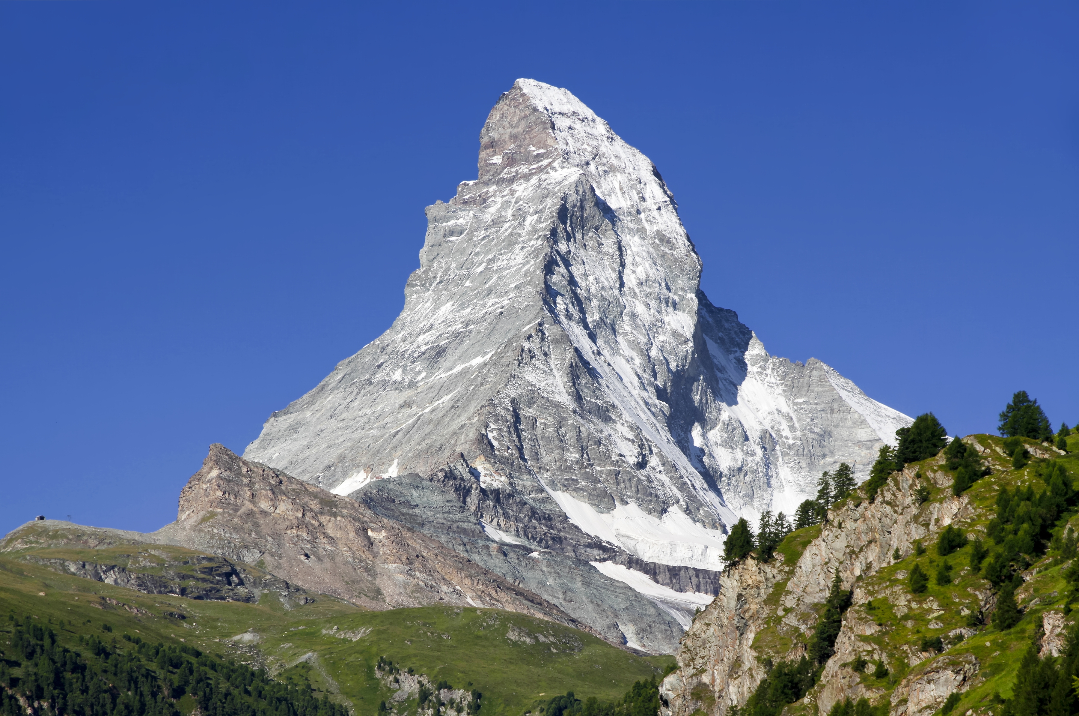 The northeast face of Matterhorn as seen from Zermatt in Wallis, Switzerland in 2012 August.